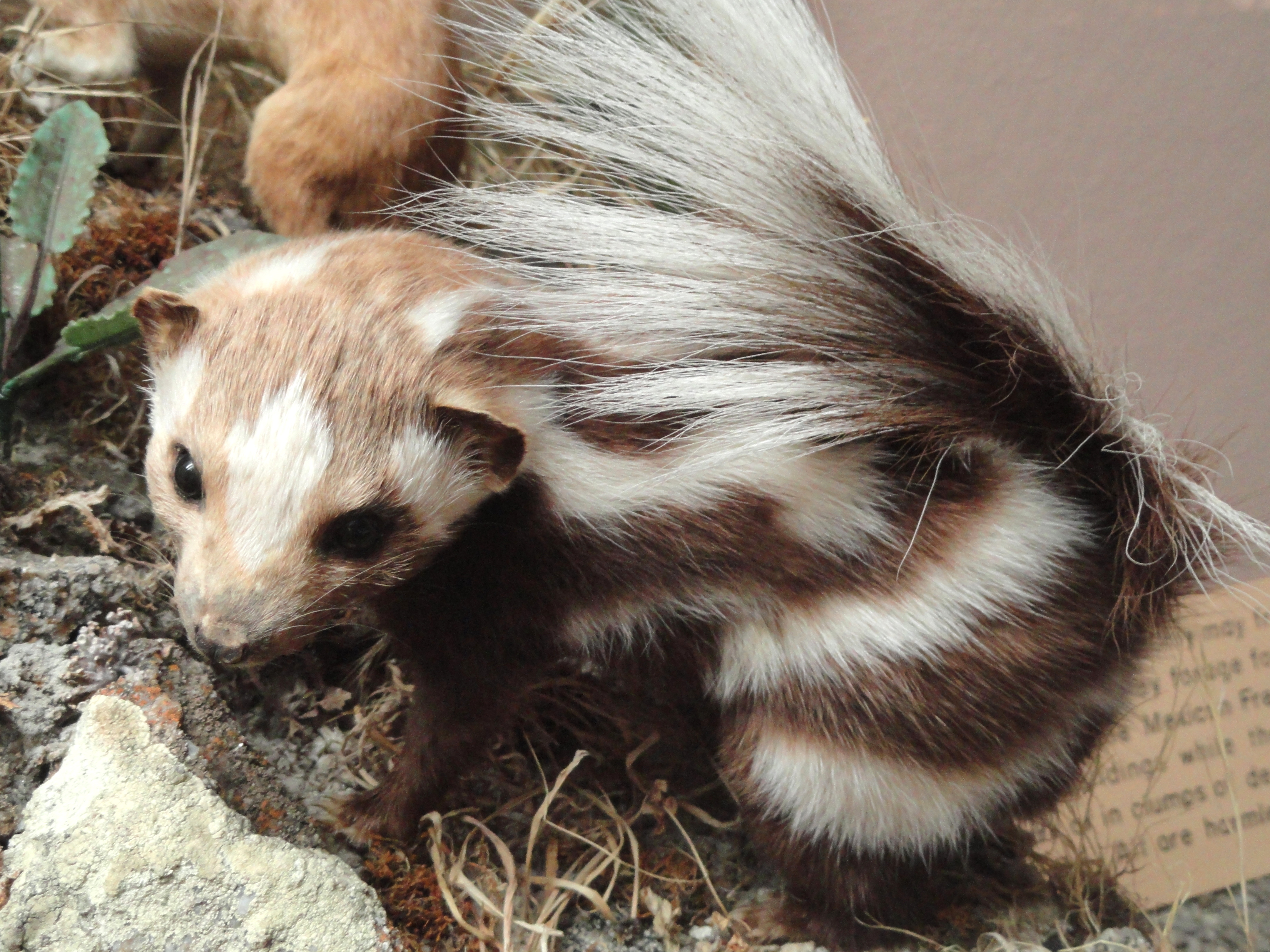 Exhibit in the Pacific Grove Museum of Natural History, Pacific Grove, California, USA. Photography was permitted without restriction in the museum.